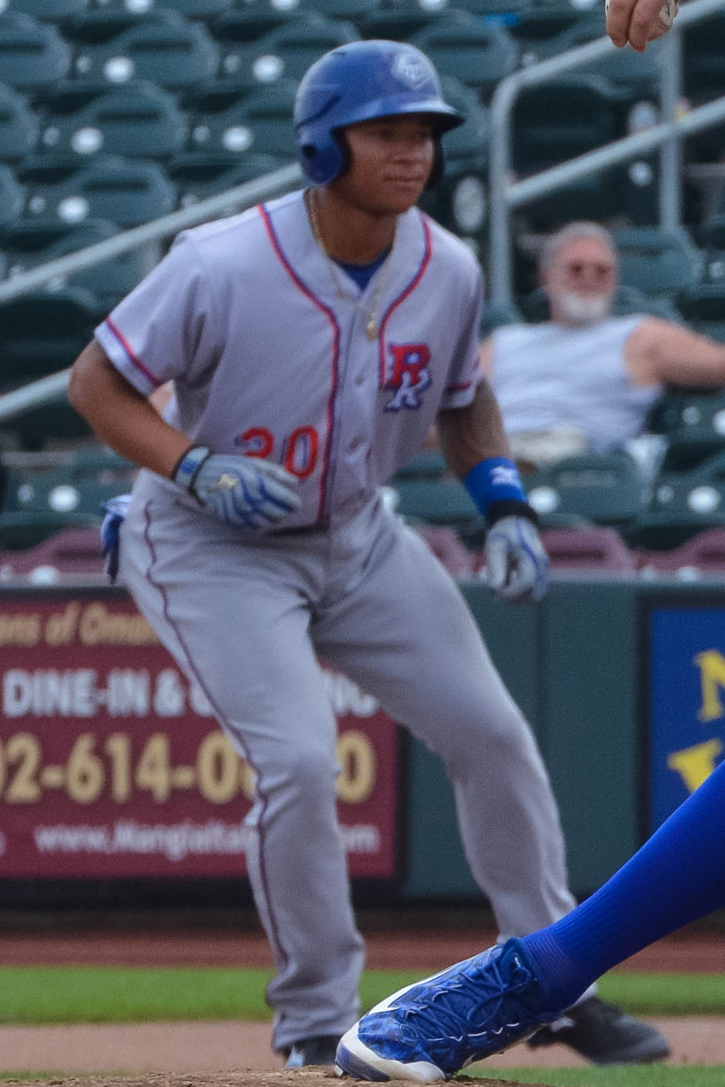 Michael Choice